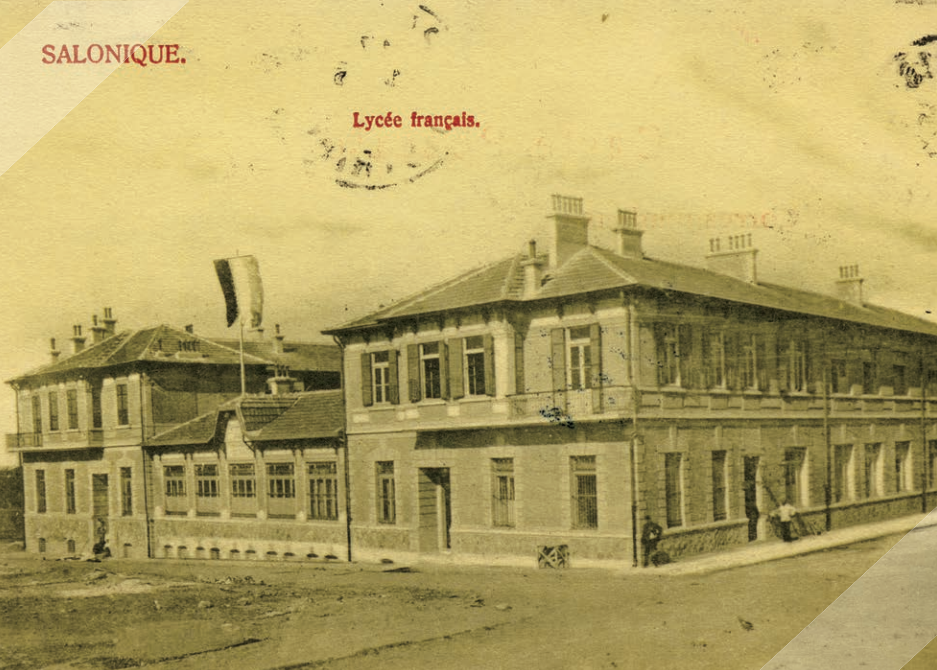 French School of Thessaloniki - March 1912 - Postcard